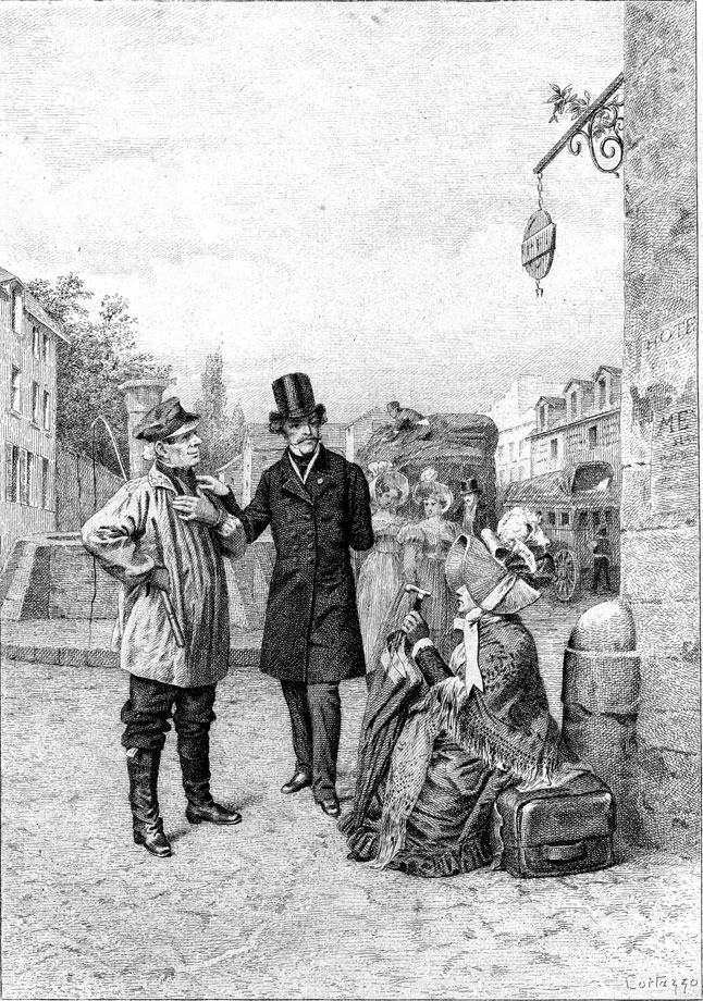 Illustration of Honoré de Balzac's A Start in Life (1844).